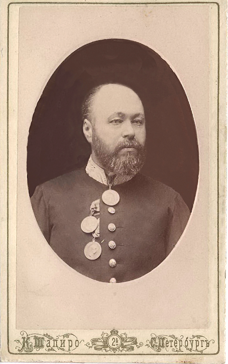 Sergey Semenov Terent'evich was an elder of the Church of Christ that the sand, 1884-1895 years, St. Petersburg. During the service was awarded four gold medals "due diligence." The photograph 3 medals.